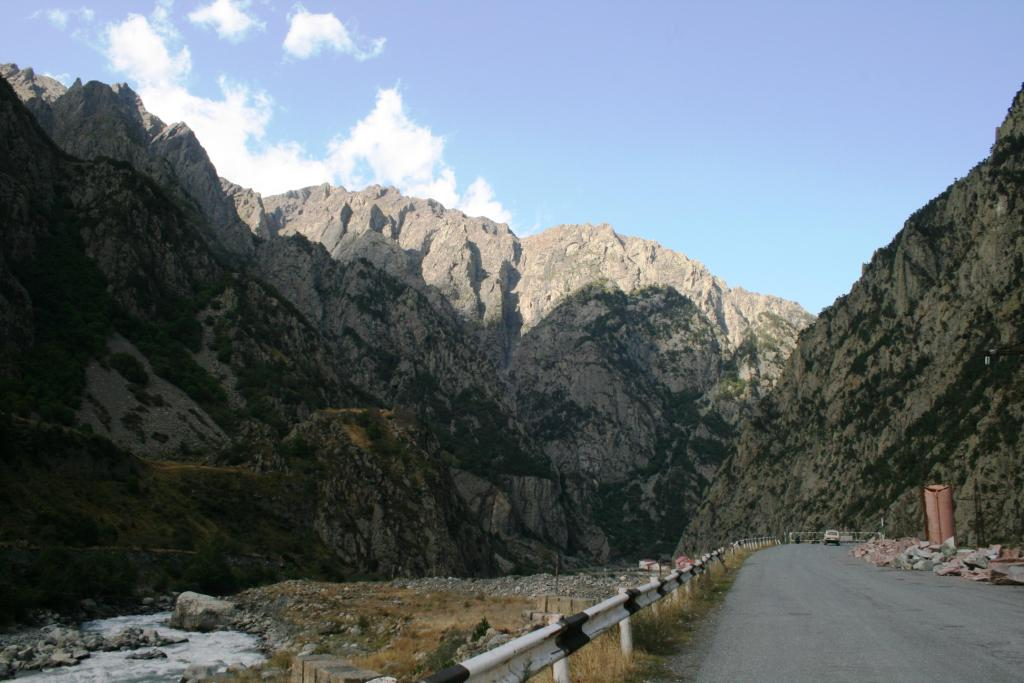 Dariali Gorge, Georgia. The road leads to a closed Georgia-Russia border zone. The so-called Queen Tamar Castle is seen on the left; the construction of a new Georgian Orthodox monastery on the right.